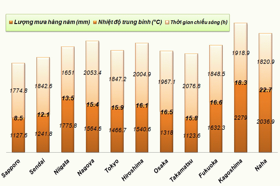 Mean temperature (°C), precipitation (mm) and sunshine duration (h) by annual throughout 1971-2000 taken from Japan Meteorological Agency ( within 11 cities: Sapporo, Sendai, Niigata, Nagoya, Tokyo, Hiroshima, Osaka, Takamatsu, Fukuoka, Kagoshima, Naha.